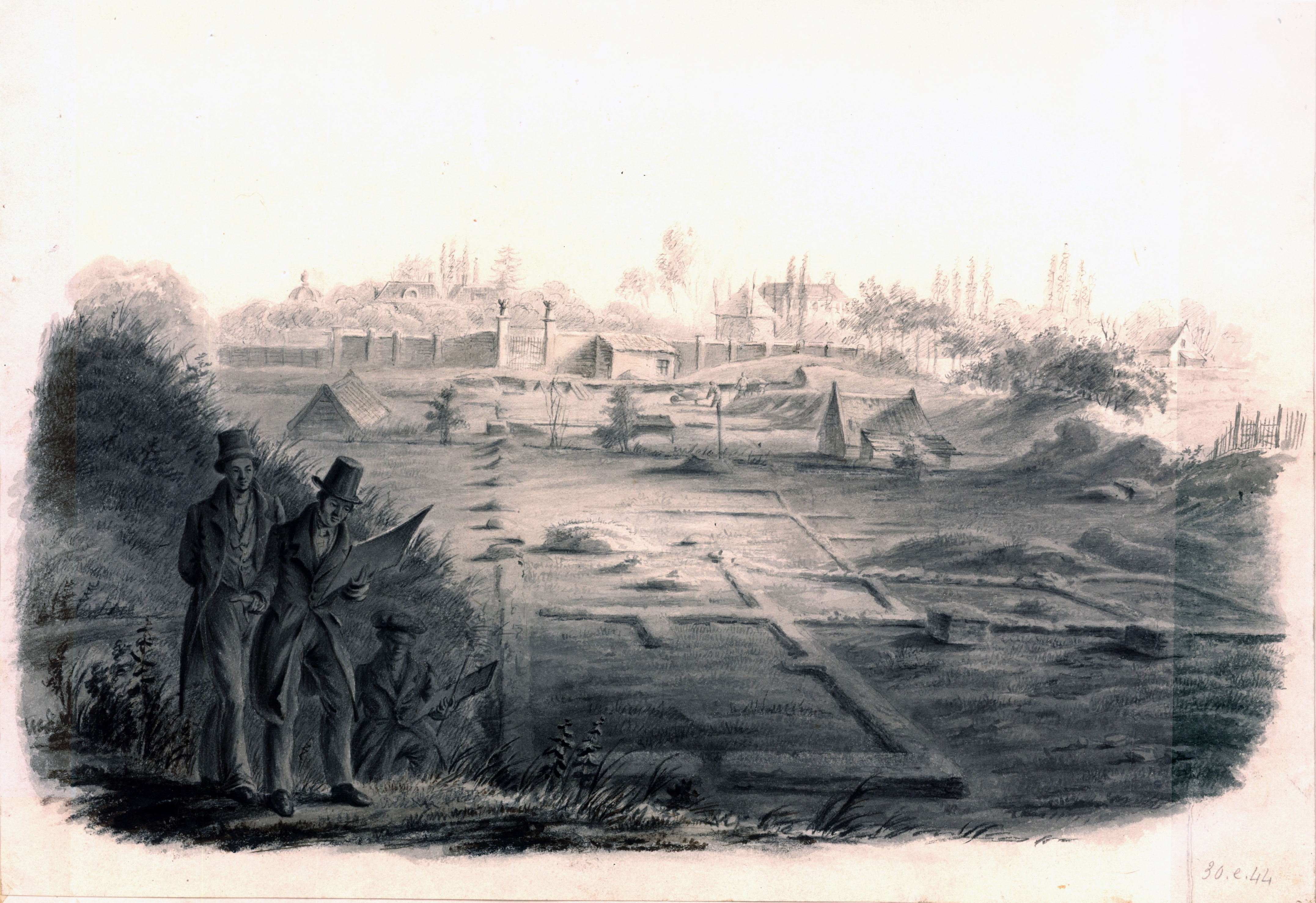 The excavations of Forum Hadriani on the Arentsburg estate in Voorburg by archaeologist Caspar Reuvens. Lithograph of the site with on the left Reuvens and a companion.